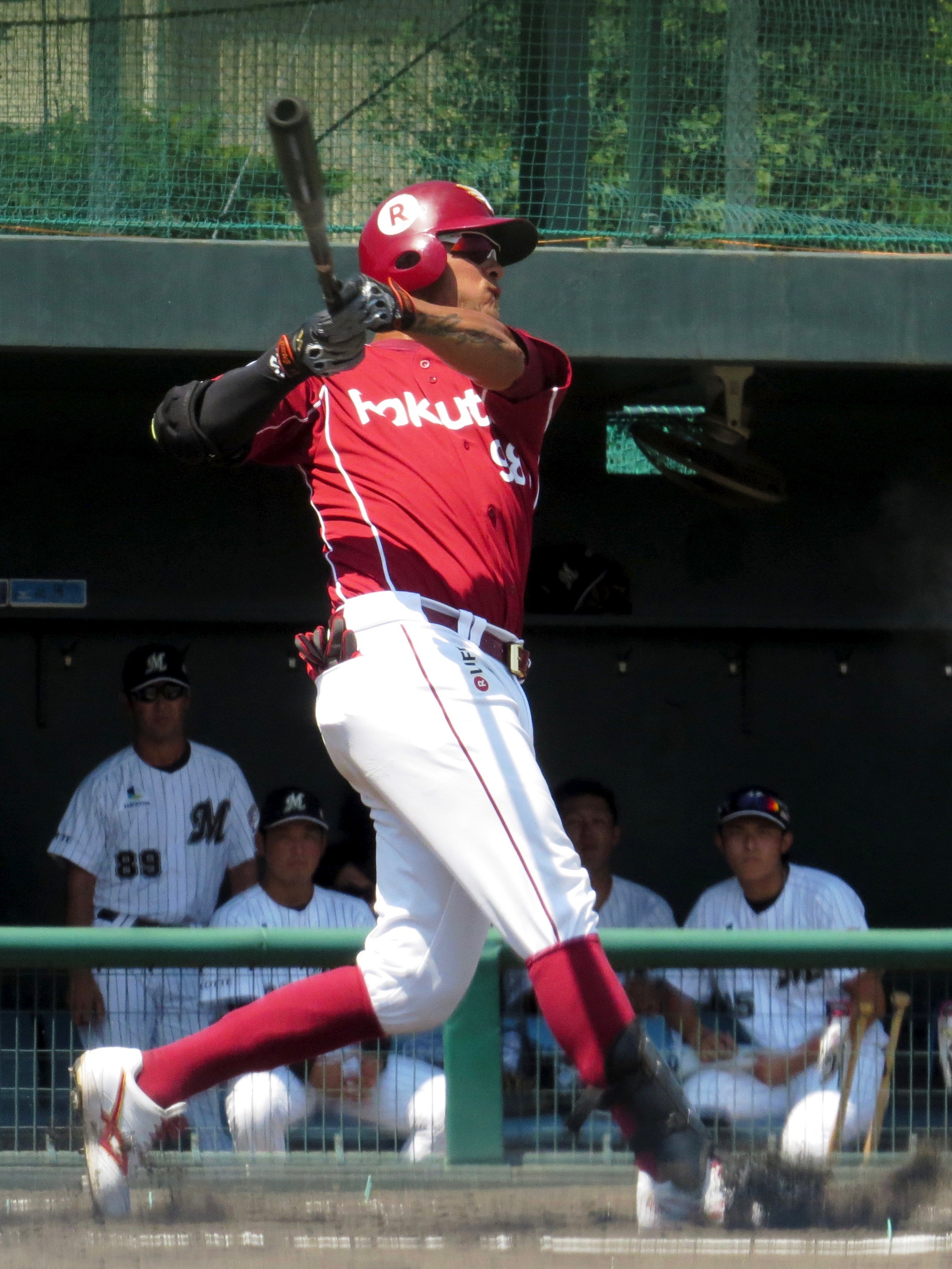 Felix Perez, outfielder of the Tohoku Rakuten Golden Eagles, at Lotte Urawa Baseball Ground